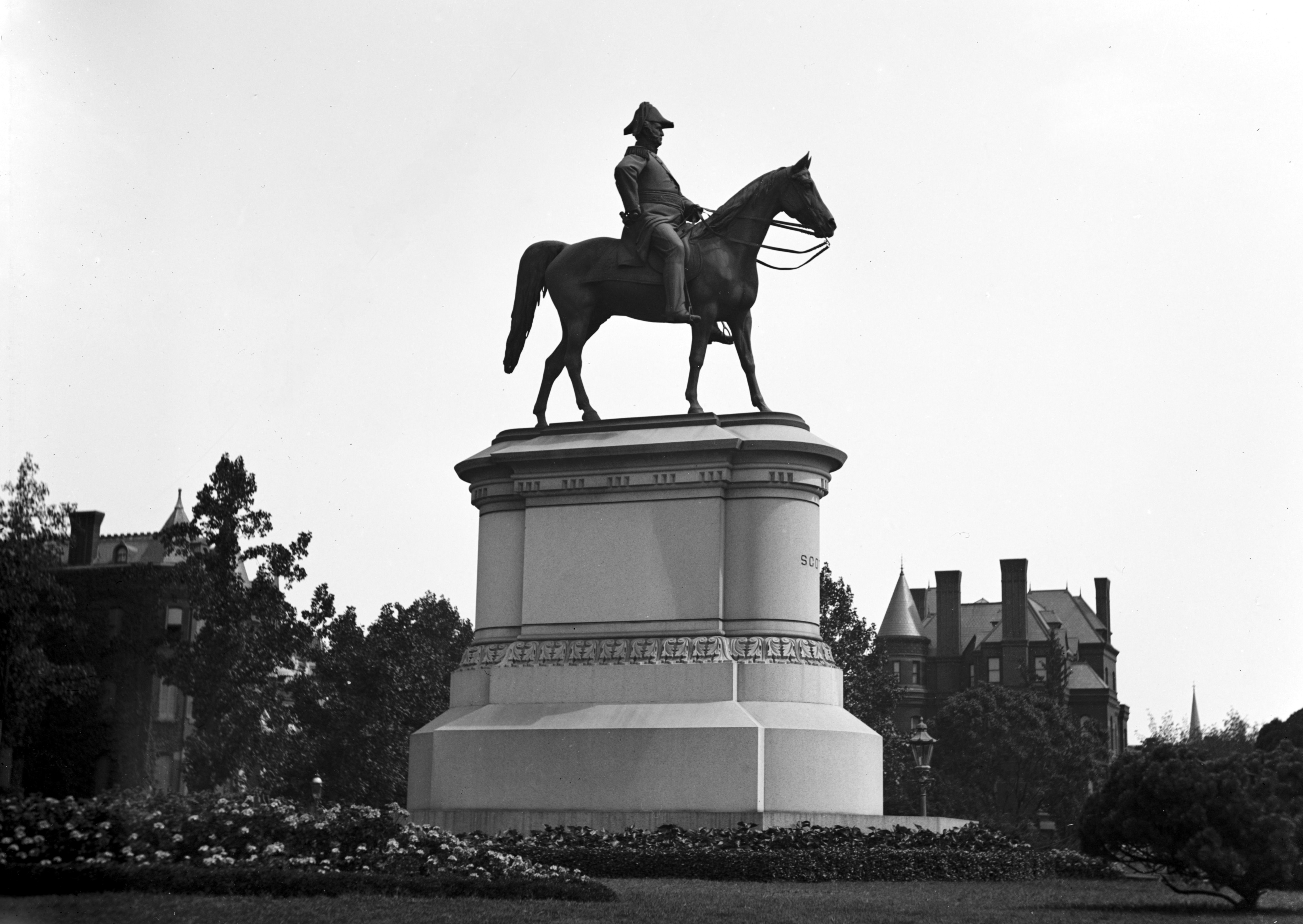 The Winfield Scott Memorial located at Scott Circle in Washington, D.C. The bronze equestrian was sculpted by Henry Kirke Brown in 1874.